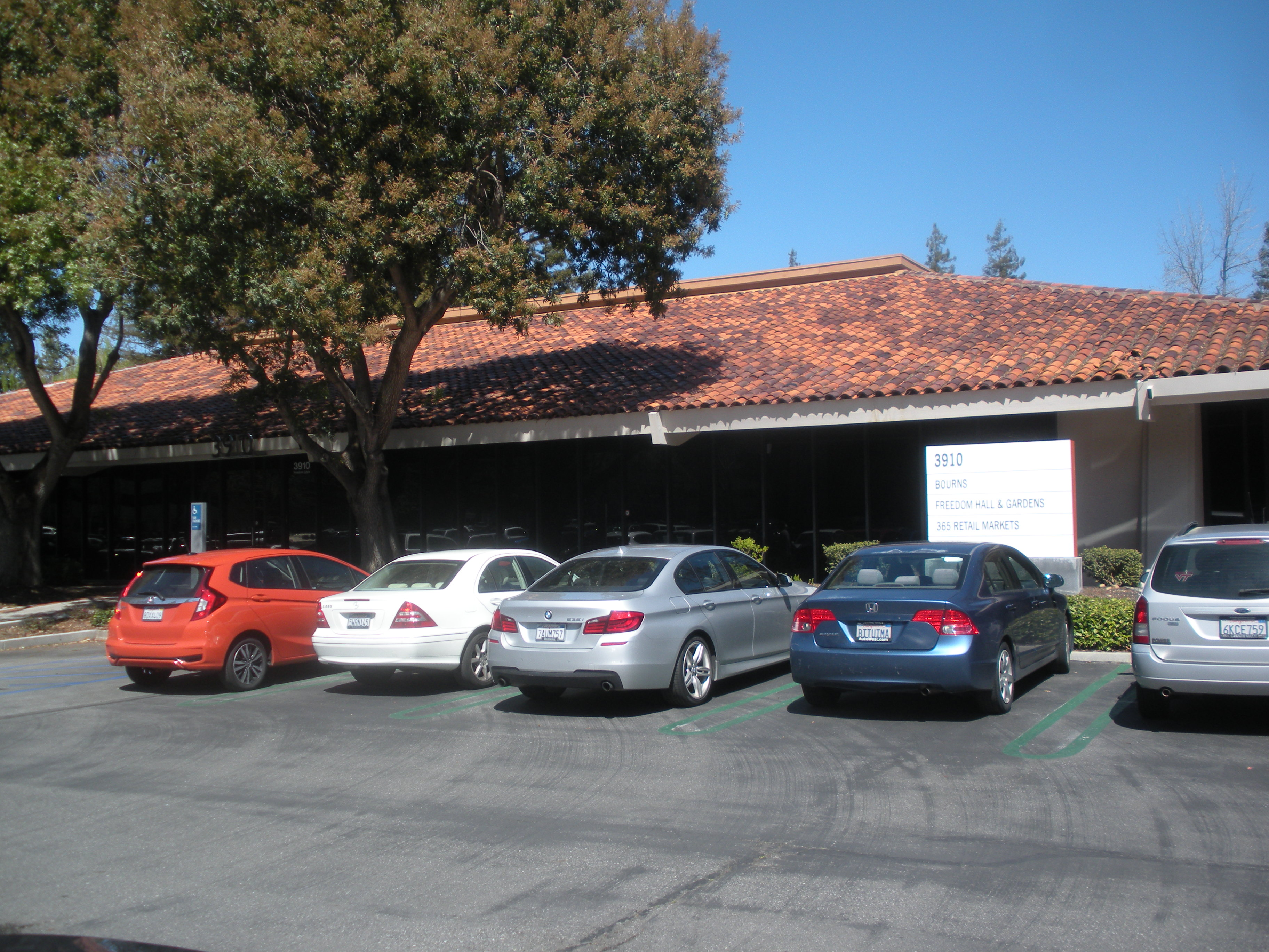 3910 Freedom Circle in Santa Clara, California. Originally posted to my Flickr